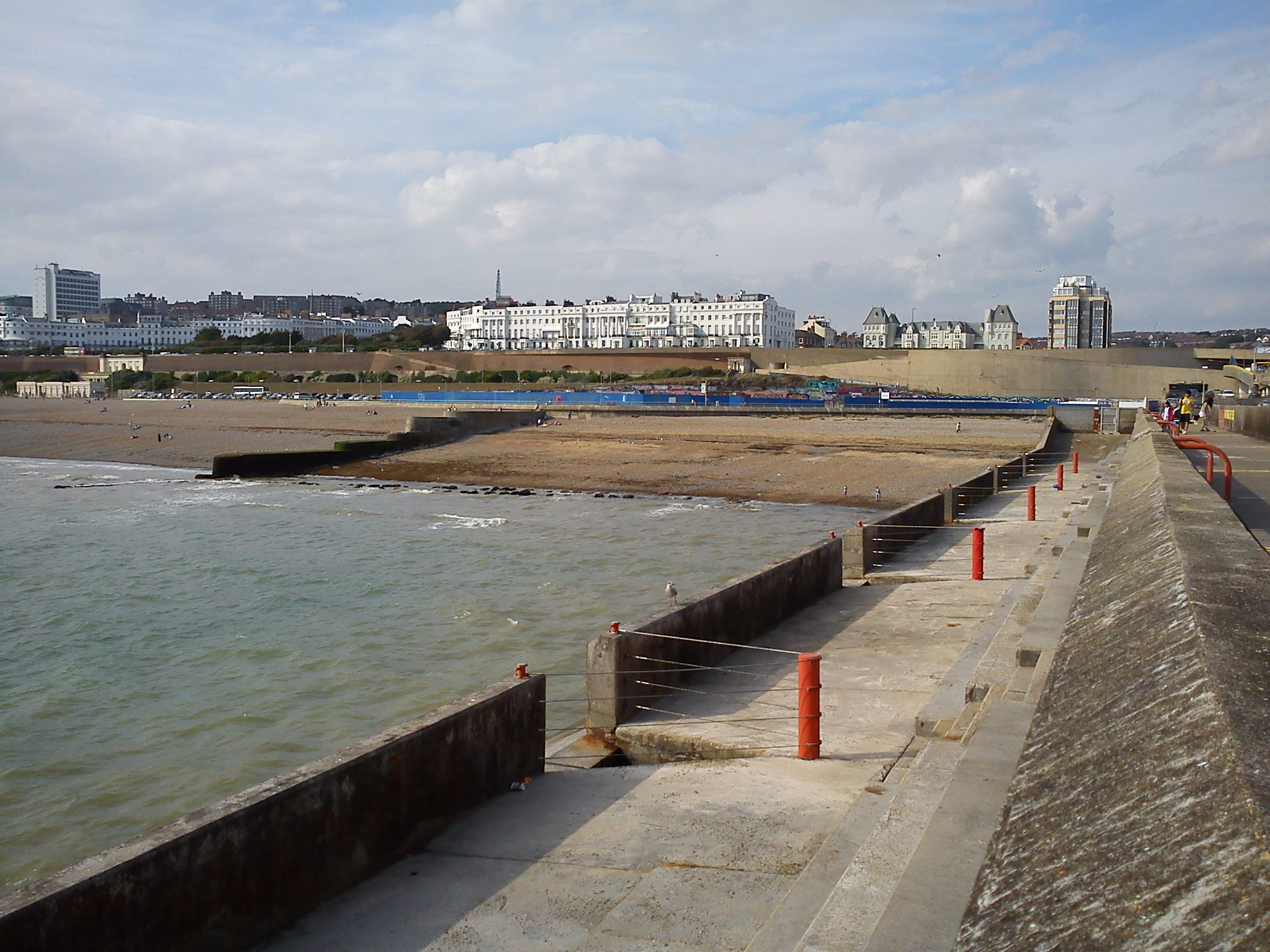 Blackrock from Brighton Marina sea wall